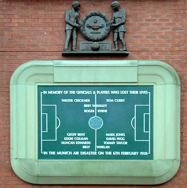 Edited from original at Image:Munich memorial plaque.JPG